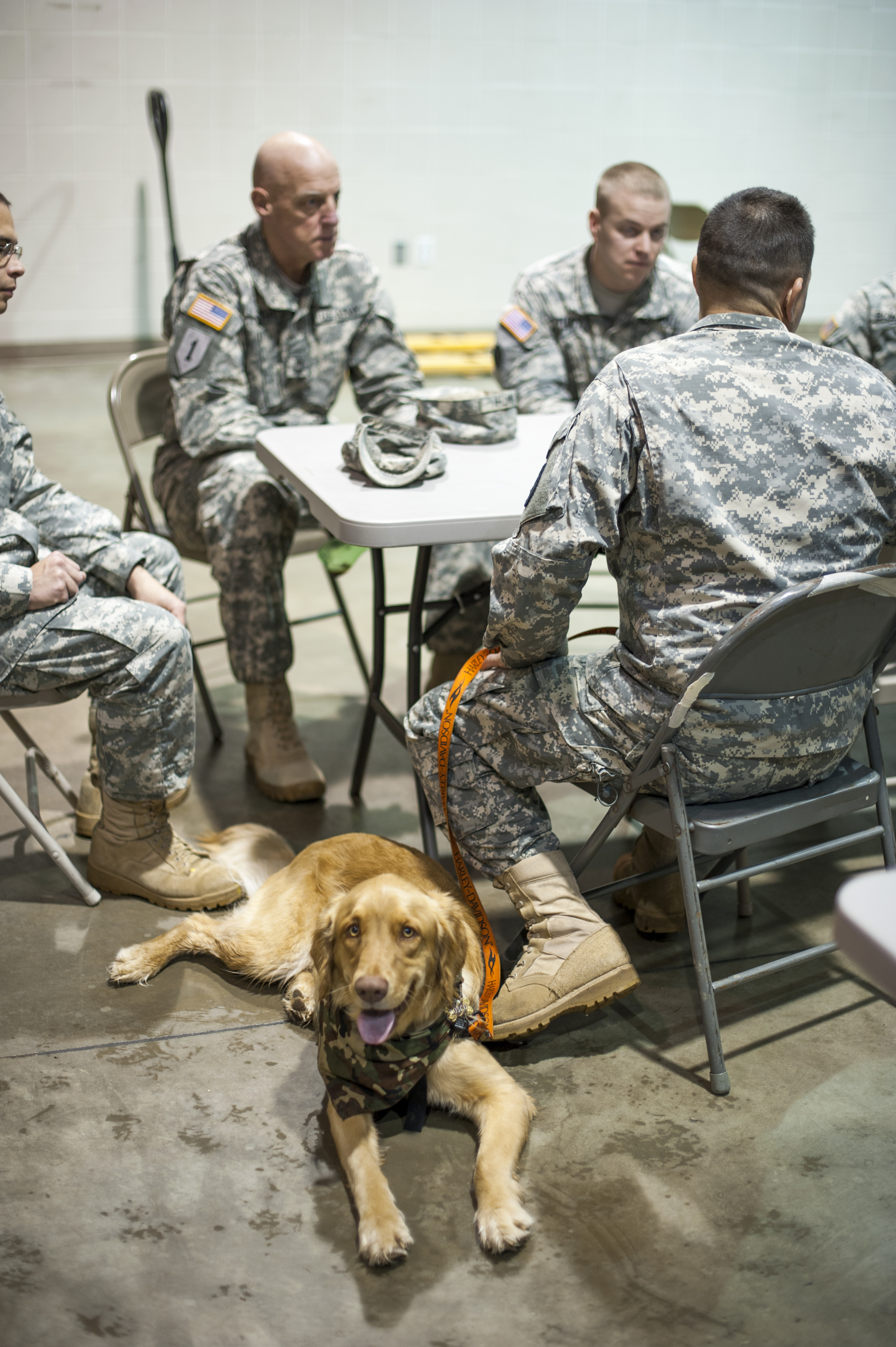 Rosco, a post-traumatic stress disorder companion animal lays at the feet of his owner, Sgt. 1st Class Jason Syriac, a military police officer with the North Carolina National Guard’s Headquarters and Headquarters Company, 130th Maneuver Enhancement Brigade, at his unit’s armory in Charlotte, N.C., Jan. 11. Syriac took time to talk to other soldiers at the armory about the benefits of a companion animal for service members with PTSD and how he rescues dogs from high-kill shelters to be trained for other service members. (U.S. Army National Guard Photo by Staff Sgt. Mary Junell, 130th Maneuver Enhanced Brigade Public Affairs/Released)